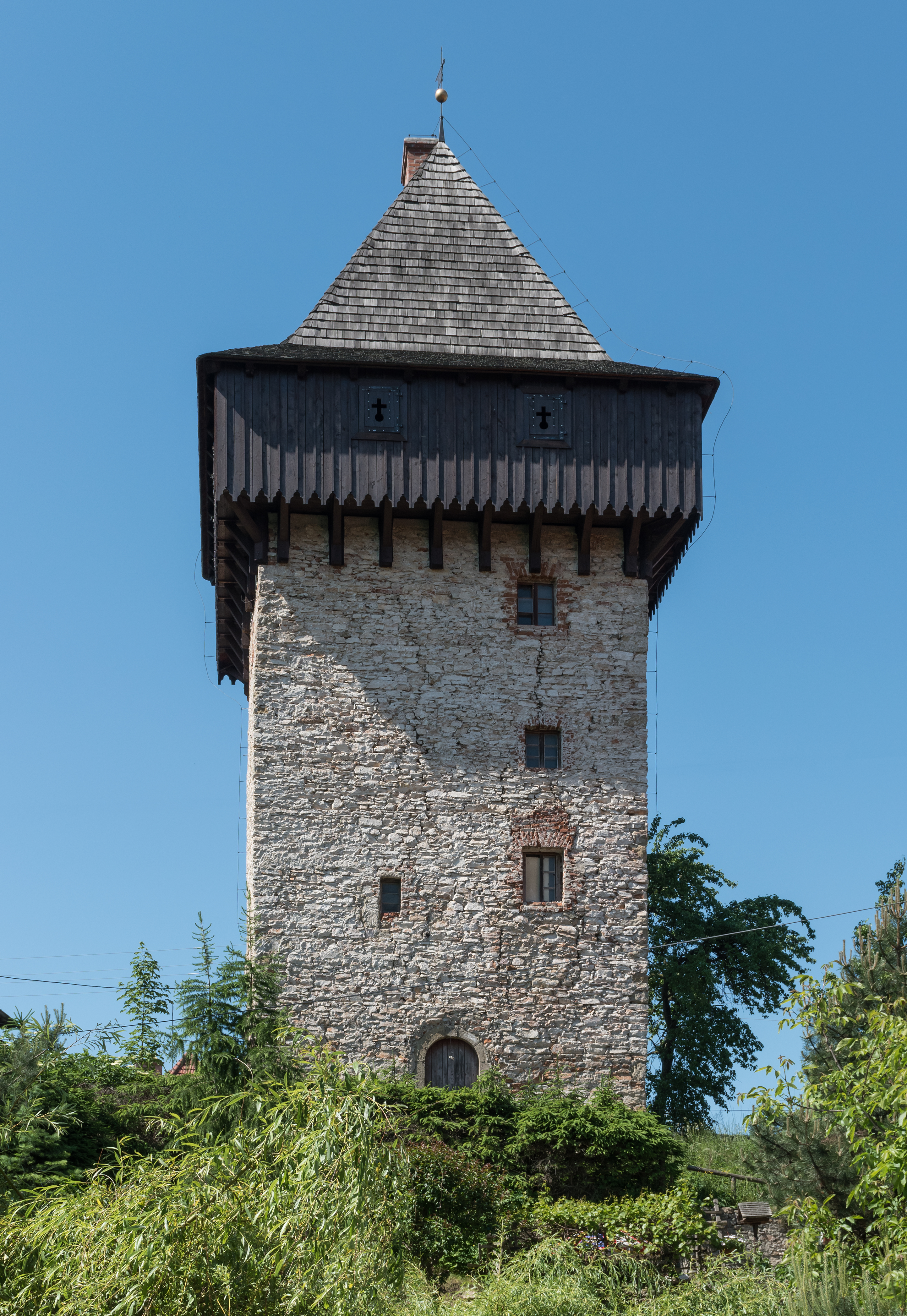 Tower house in Żelazno Ta fotografia przedstawia zabytek wpisany do rejestru zabytków pod numerem ID 592675